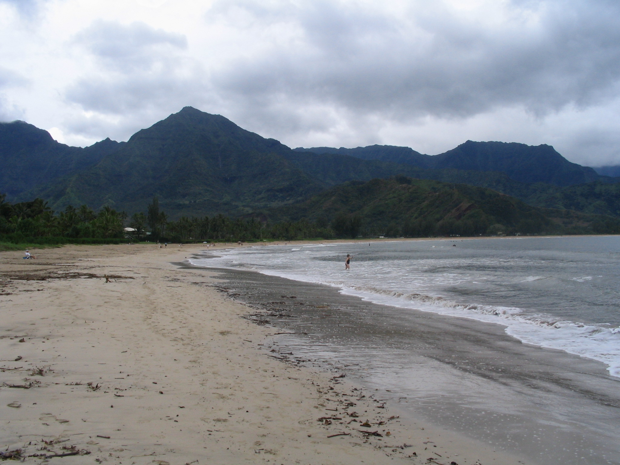 The beach at Hanalei Bay